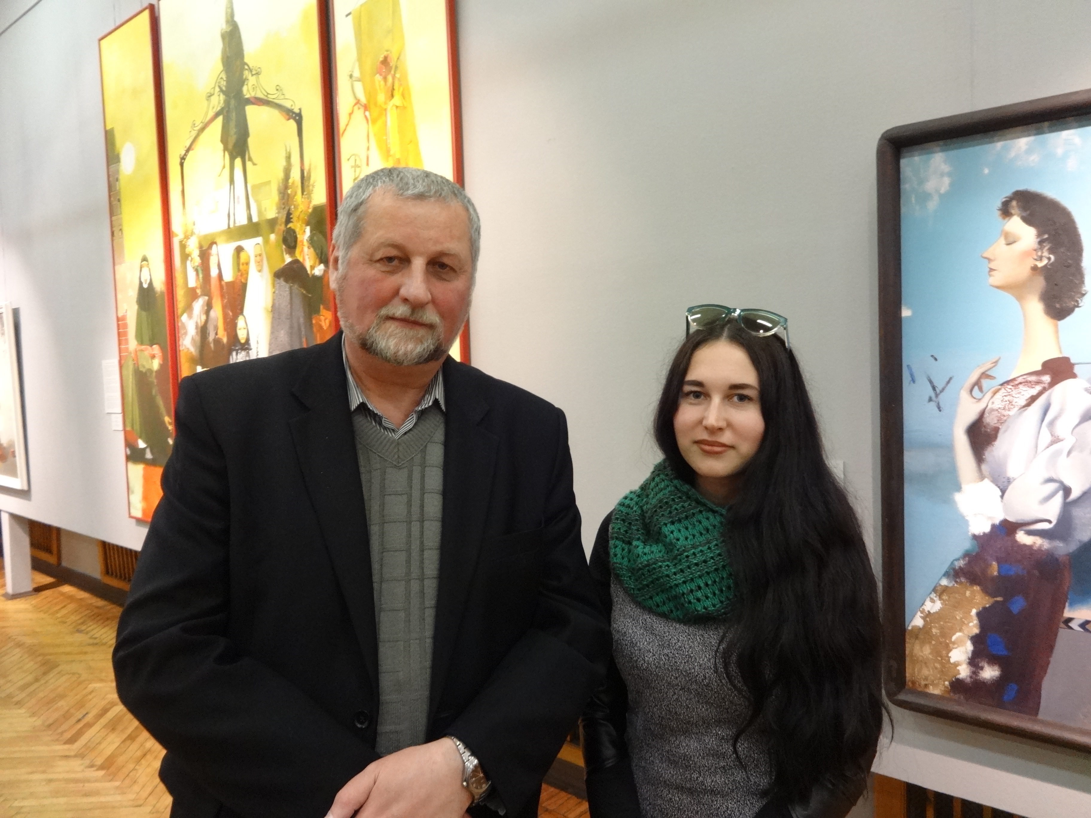 belorussian painter Valeryj Shkaruba (born 1957 AD) and his daughter Volha Shkaruba (born 1990 AD) - in Minsk city (Belarus). Photo 2016 AD